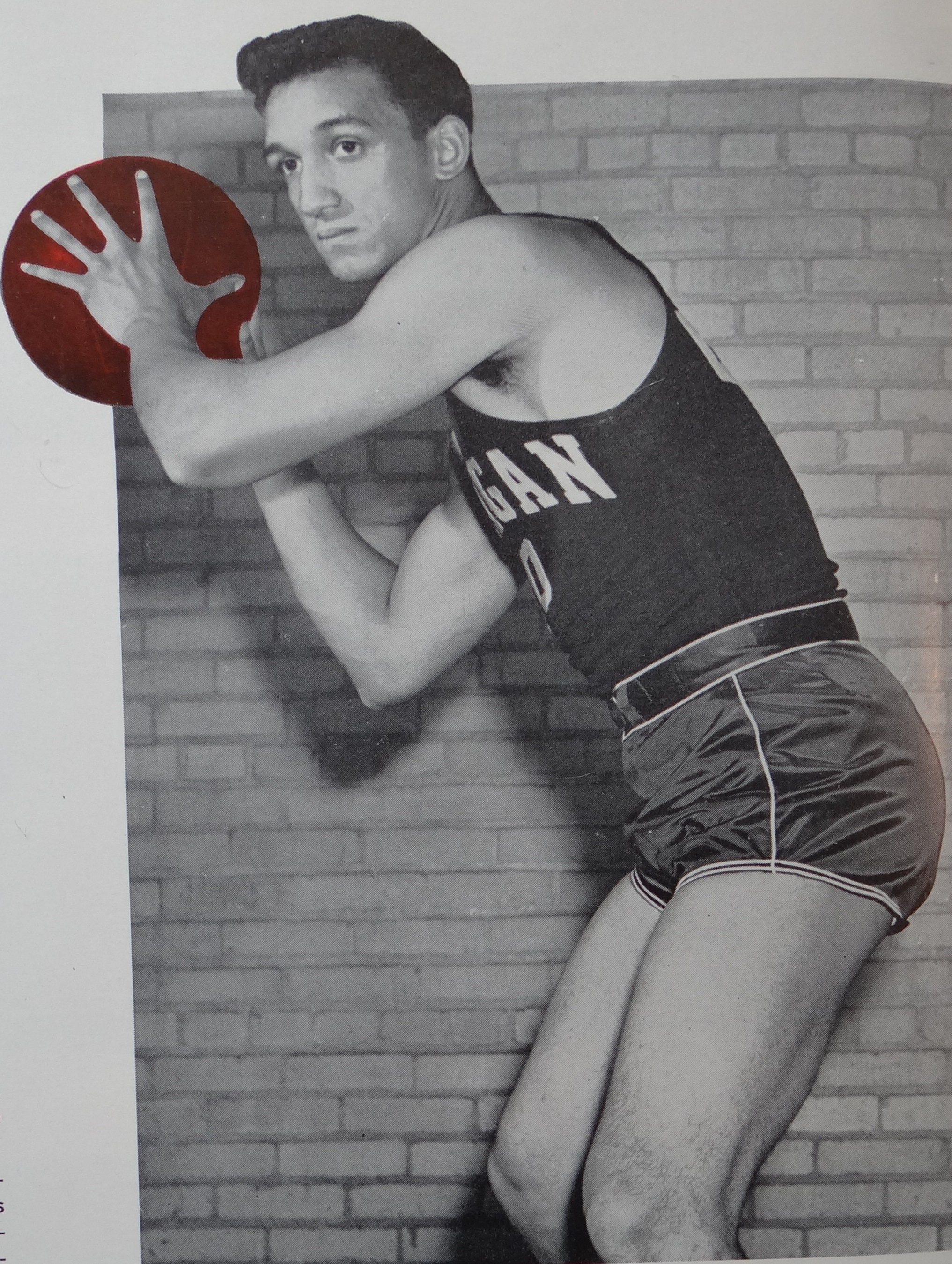 Photograph of University of Michigan basketball player Bob Harrison Photograph of University of Michigan basketball player Bob Harrison